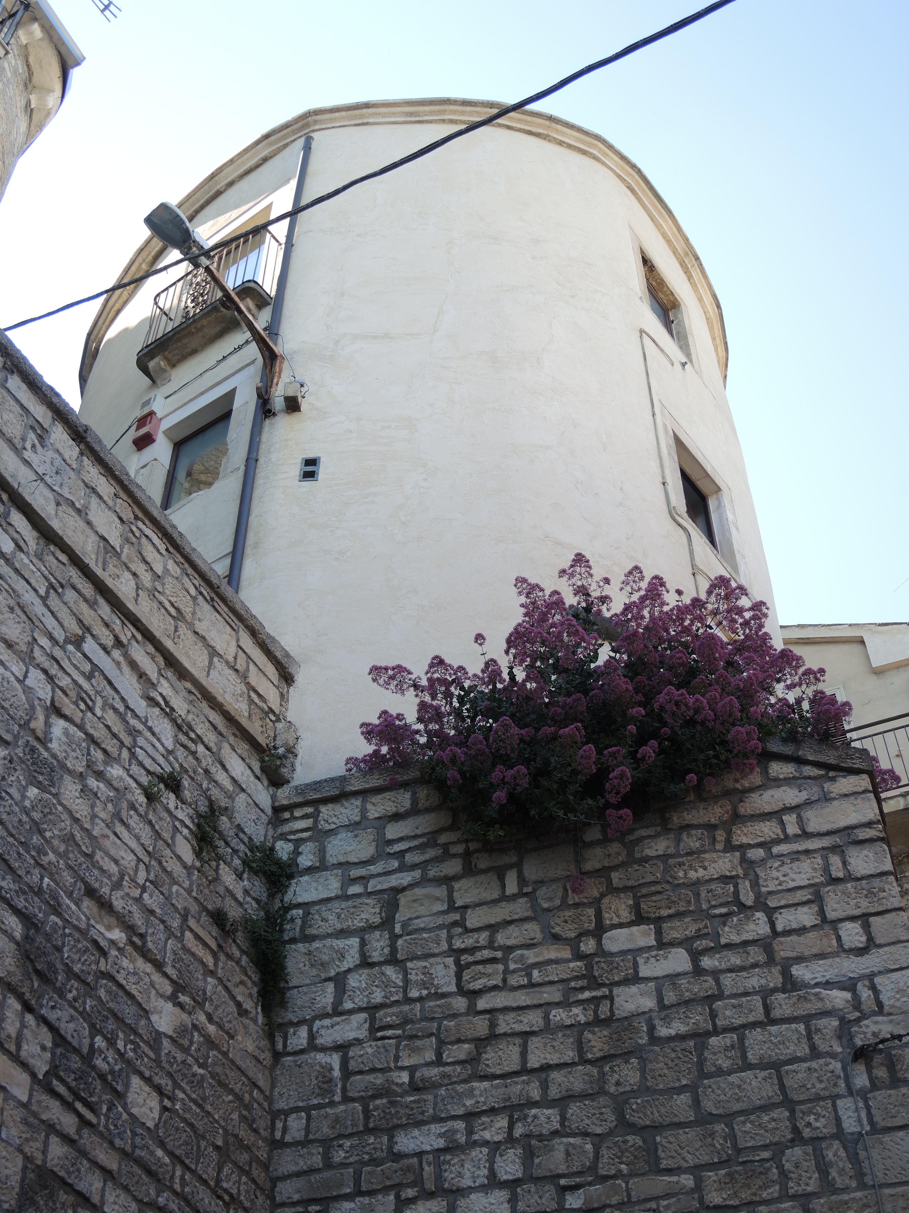 Pennapiedimonte (CH)